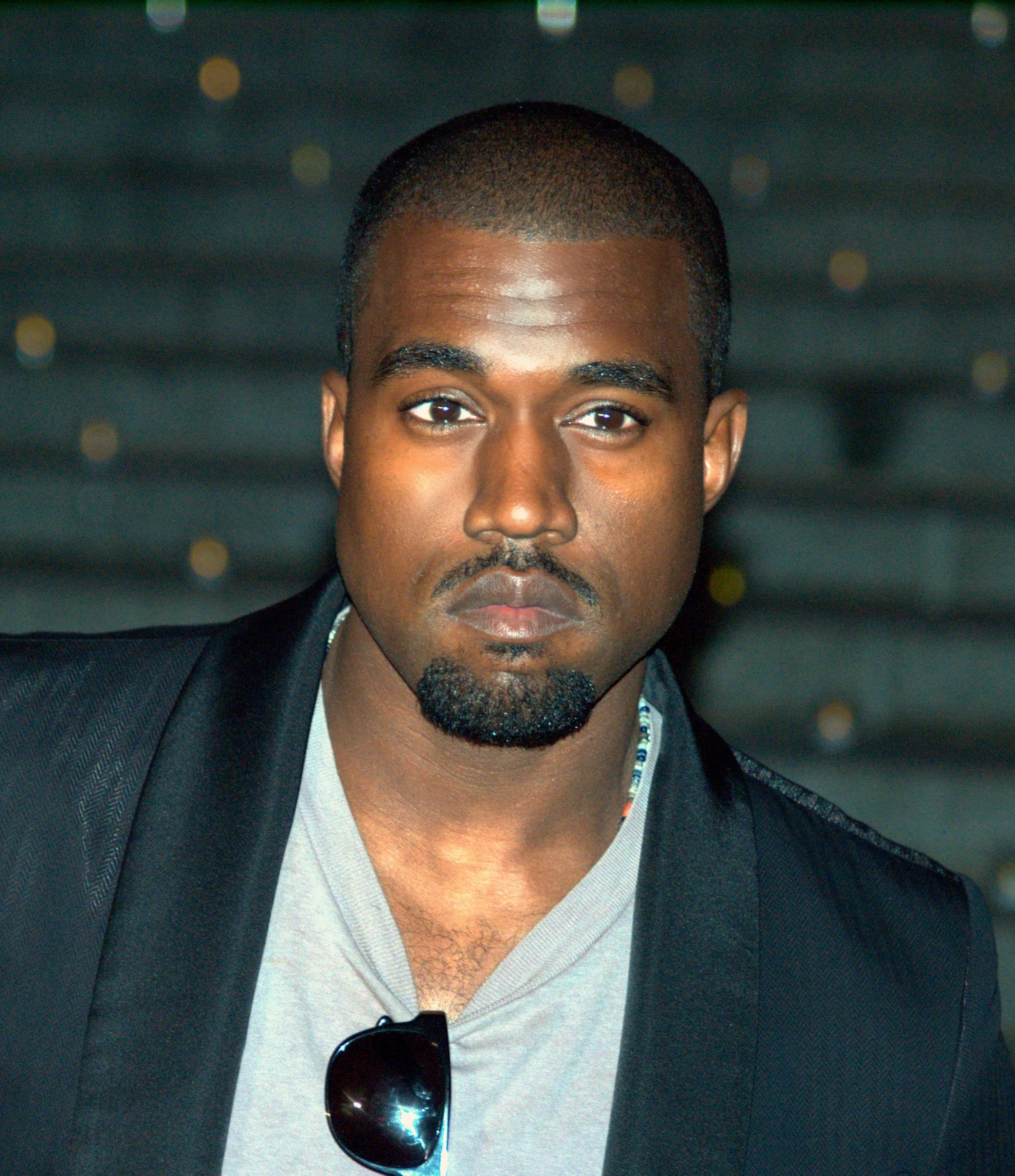 Kanye West at the Vanity Fair kickoff part for the 2009 Tribeca Film Festival. Photographer's blog post about this event and photo.